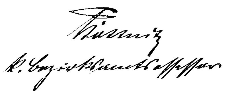 Signature of Paul Köttnitz in the photo album of 1909 in Bad Neustadt (Germany - Bavaria)